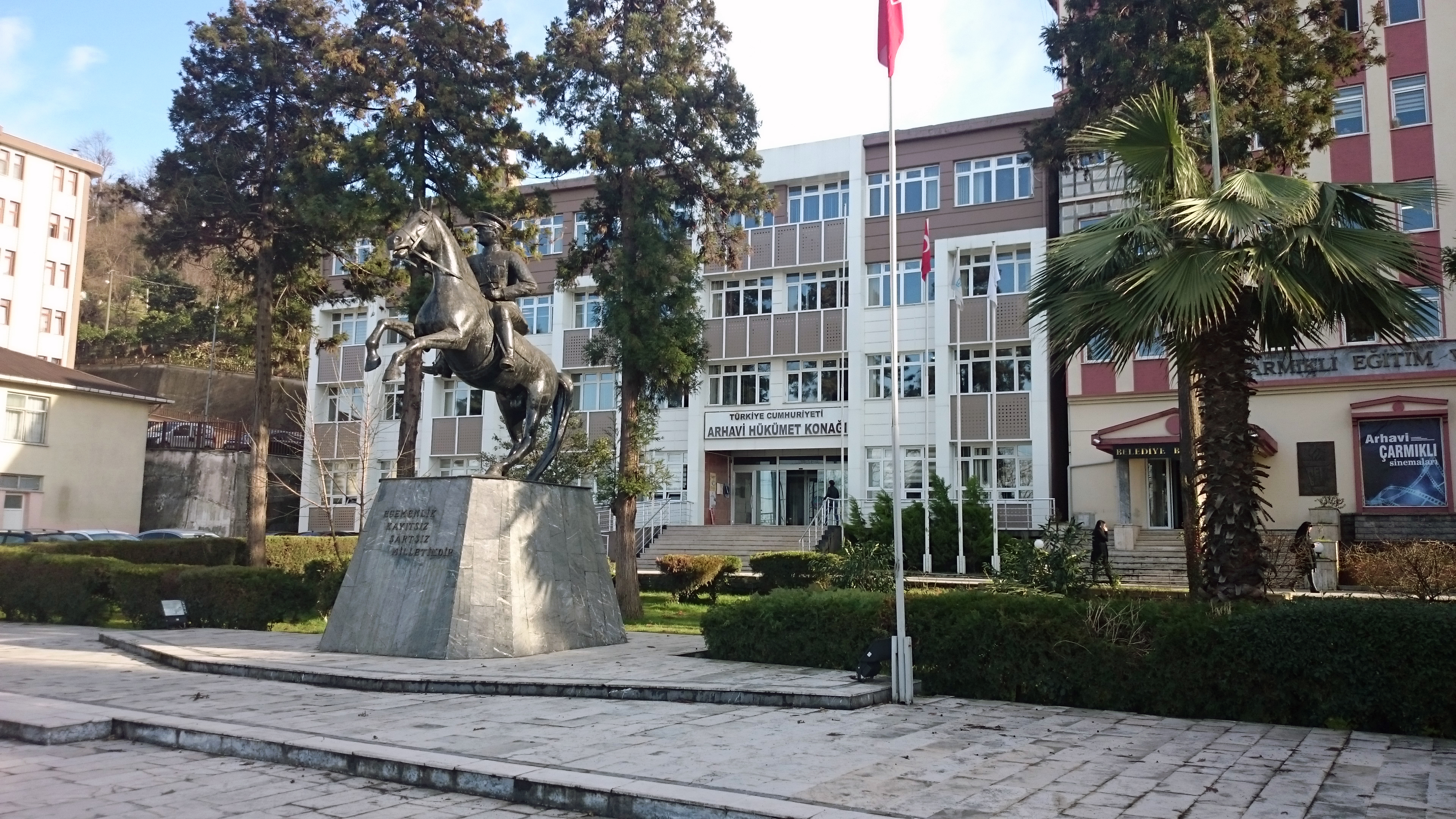 Arhavi Goverment Building